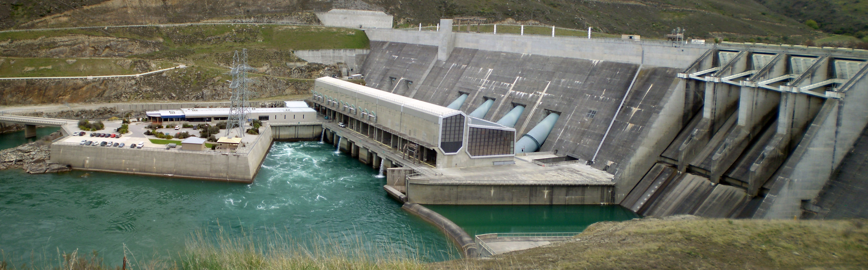 Picture of the Clyde Dam, Central Otago. New Zealand's third largest hydro-electric dam.